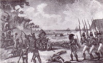 The Storming of the Cape of Good Hope(fictional representation of the Battle of Blaauwberg)